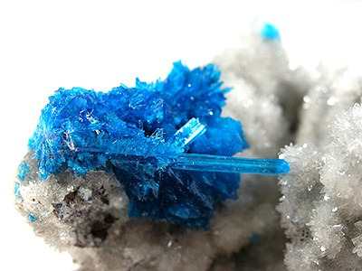 Cavansite, Pentagonite Locality: Jalgaon District, Maharashtra, India (Locality at ) Size: miniature, 5.5 x 3.5 x 3.3 cm Pentagonite on Cavansite (both dimorphs on one specimen!) To those who exclaim " Holy S**&&*%" when they see these pics, the reason it is so seemingly pricey is self-explanatory. This piece is a true mineralogical oddity featuring both dimorphs of this chemistry on the same specimen. My eyes popped out of my head when i saw it, as it is only the second such really fine example of this combination I have seen (from the same pocket, actually, though the first one was brought to me several months before the show). I was told, and had long thought, that the much rarer pentagonite occurs under quite different conditions from cavansite, so that they never form together in the same vug. Certainly, I have never SEEN them occur together on the same specimen. Well, these not only formed in the same vug but literally on top of each other, and more than that seemingly INTERGROWN ?!?!?! I think it is both an aesthetically choice and scientifically important specimen.